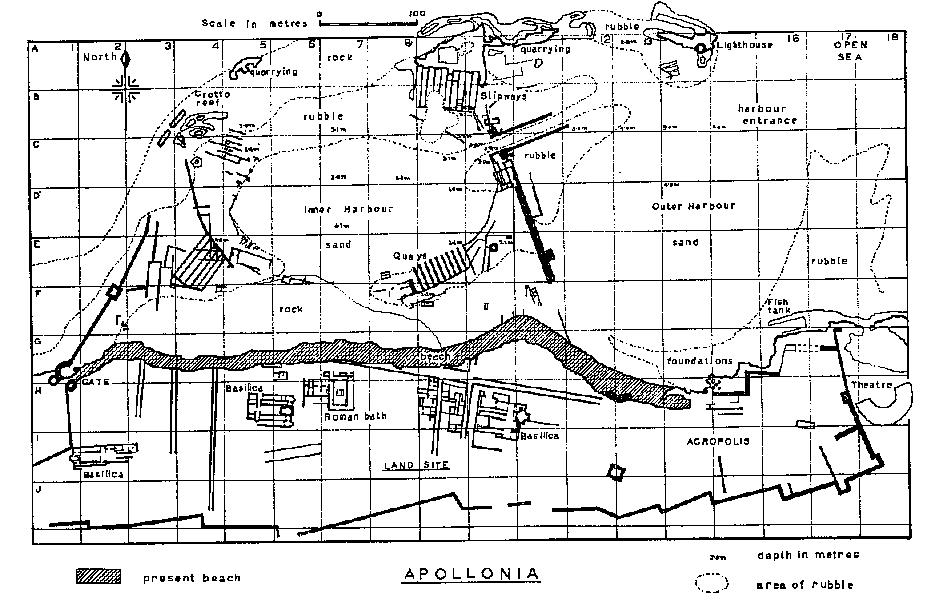 Map showing underwater ruins surveyed by divers